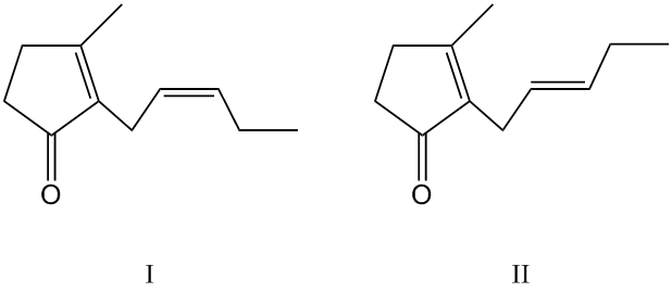 Jasmone